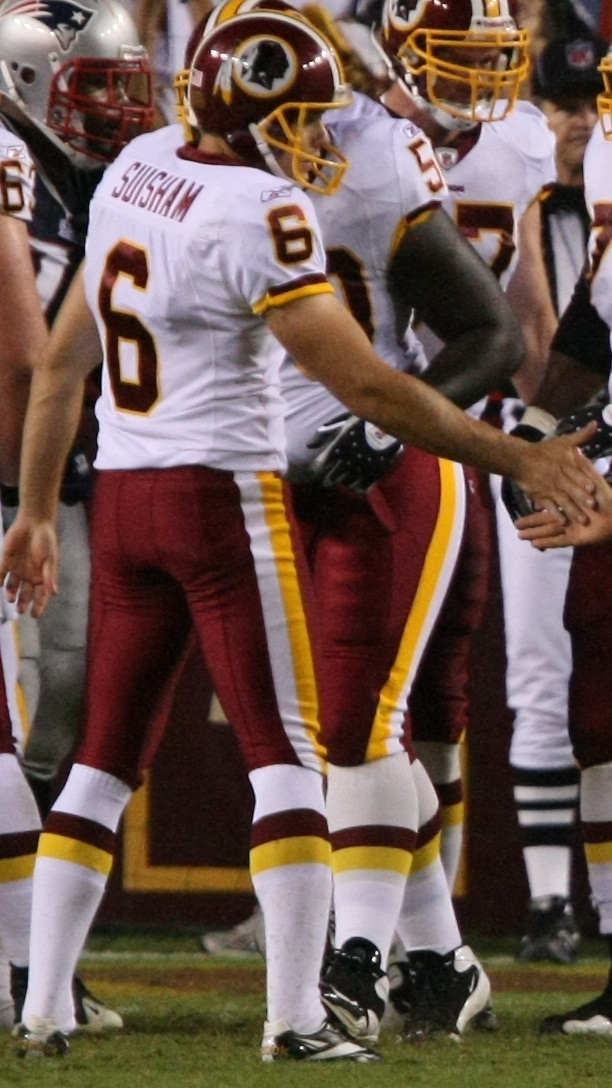 Shaun Suisham during a preseason game in 2009.